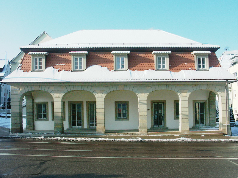 Asperg gatehouse, Ludwigsburg